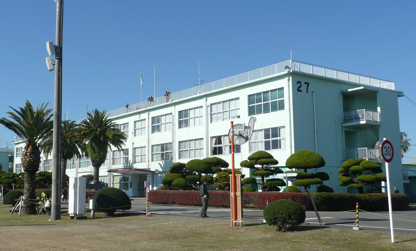 Japan Air Self-Defense Force (JASDF) 5th Air Wing Headquarters (Nyutabaru Air Base, Shintomi Town, Miyazaki, Japan)